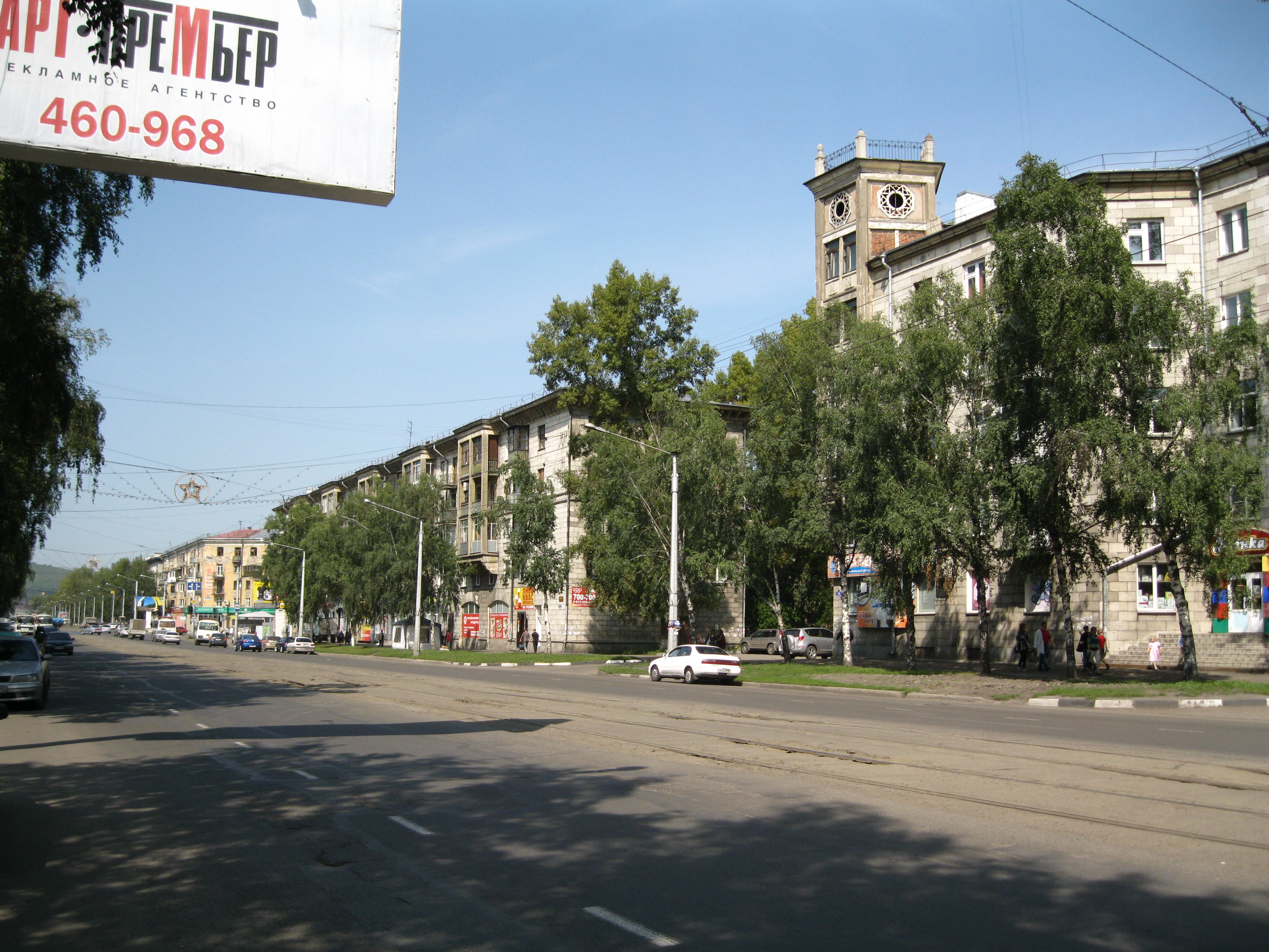 Kurako avenue in Novokuznetsk, Russia